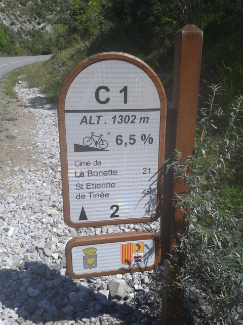 Mountain pass cycling milestone at the Cime de la Bonette in France ascending from Jausier